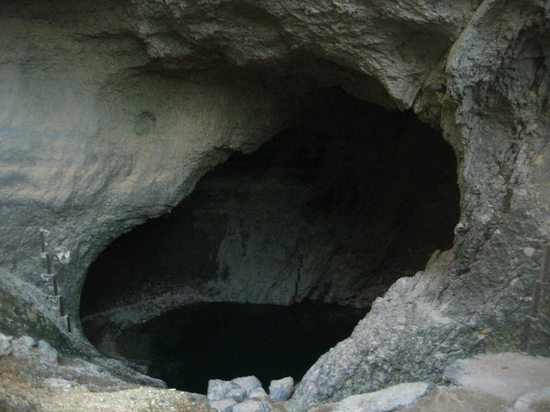 Karst spring La Fontaine de Vaucluse, France. Water level very low.